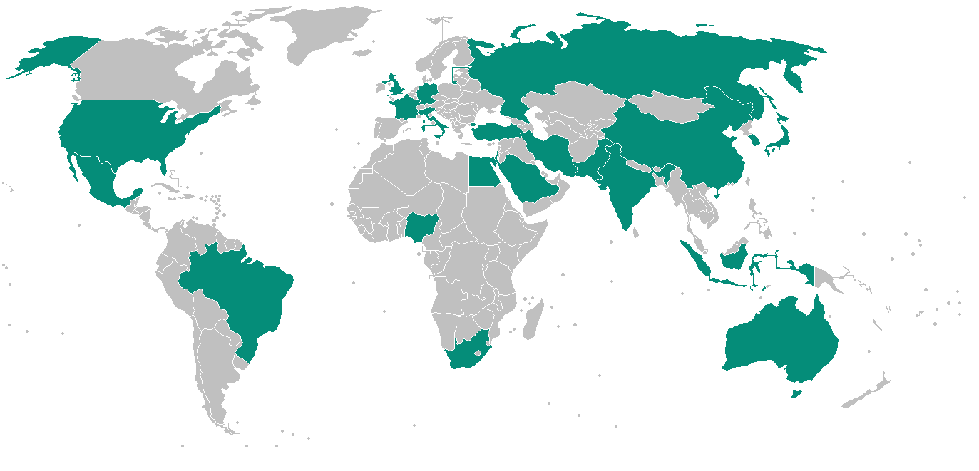 Regional Power